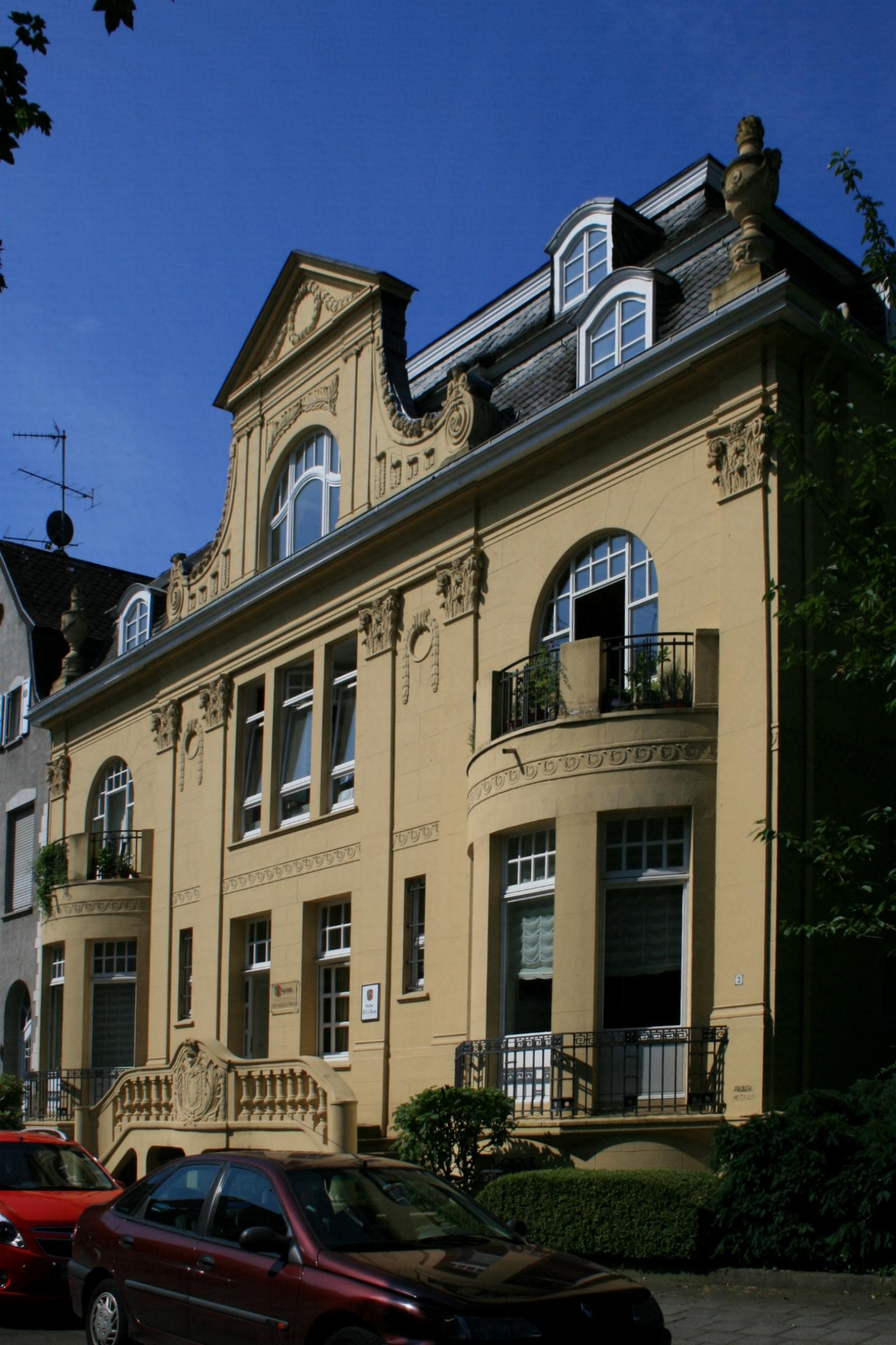 Cultural heritage monument No. O 002 in MönchengladbachThis is a photograph of an architectural monument. 002